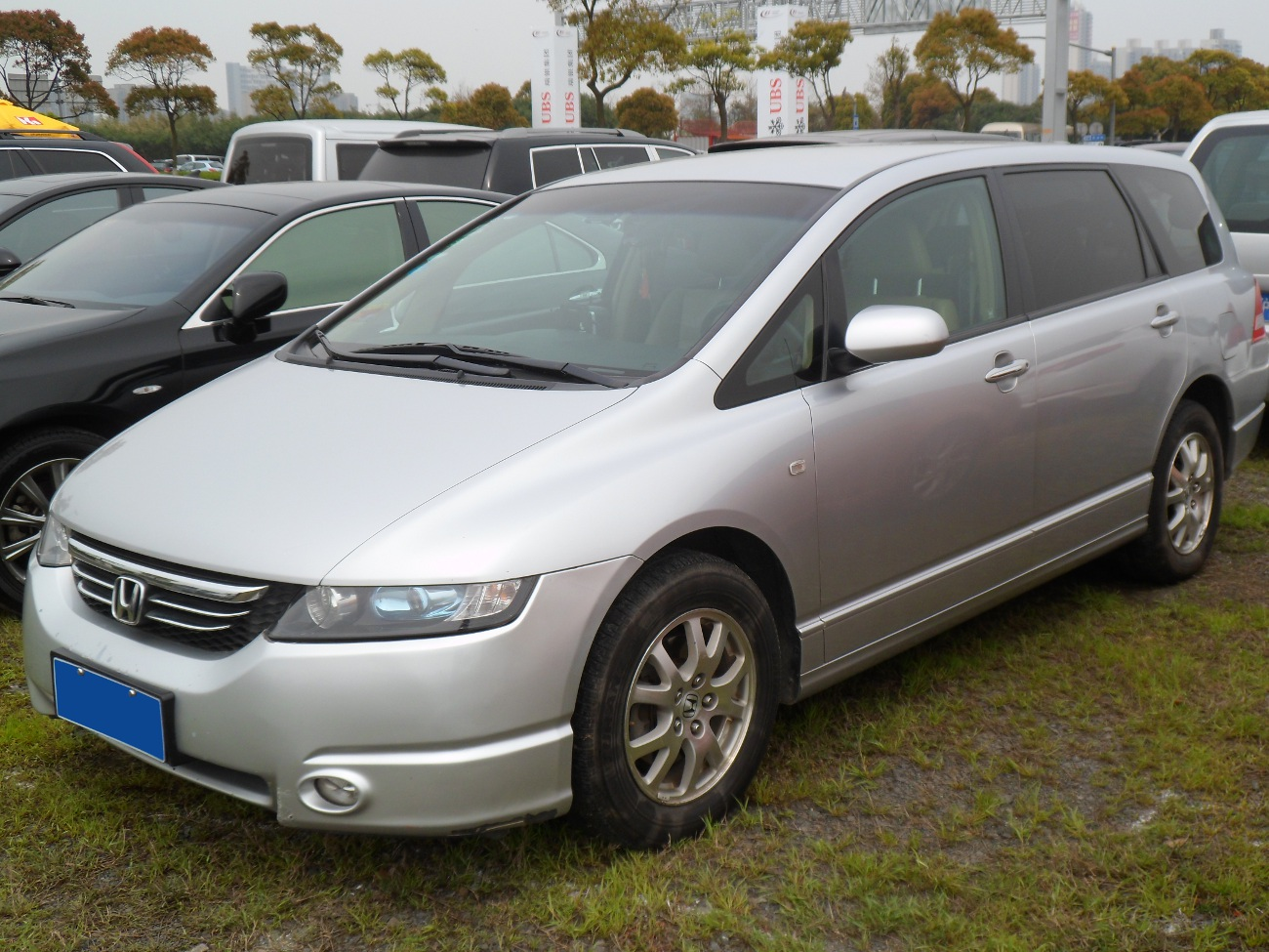 Honda Odyssey RB1/RB2 photographed in Anting, Shanghai municipality, China.